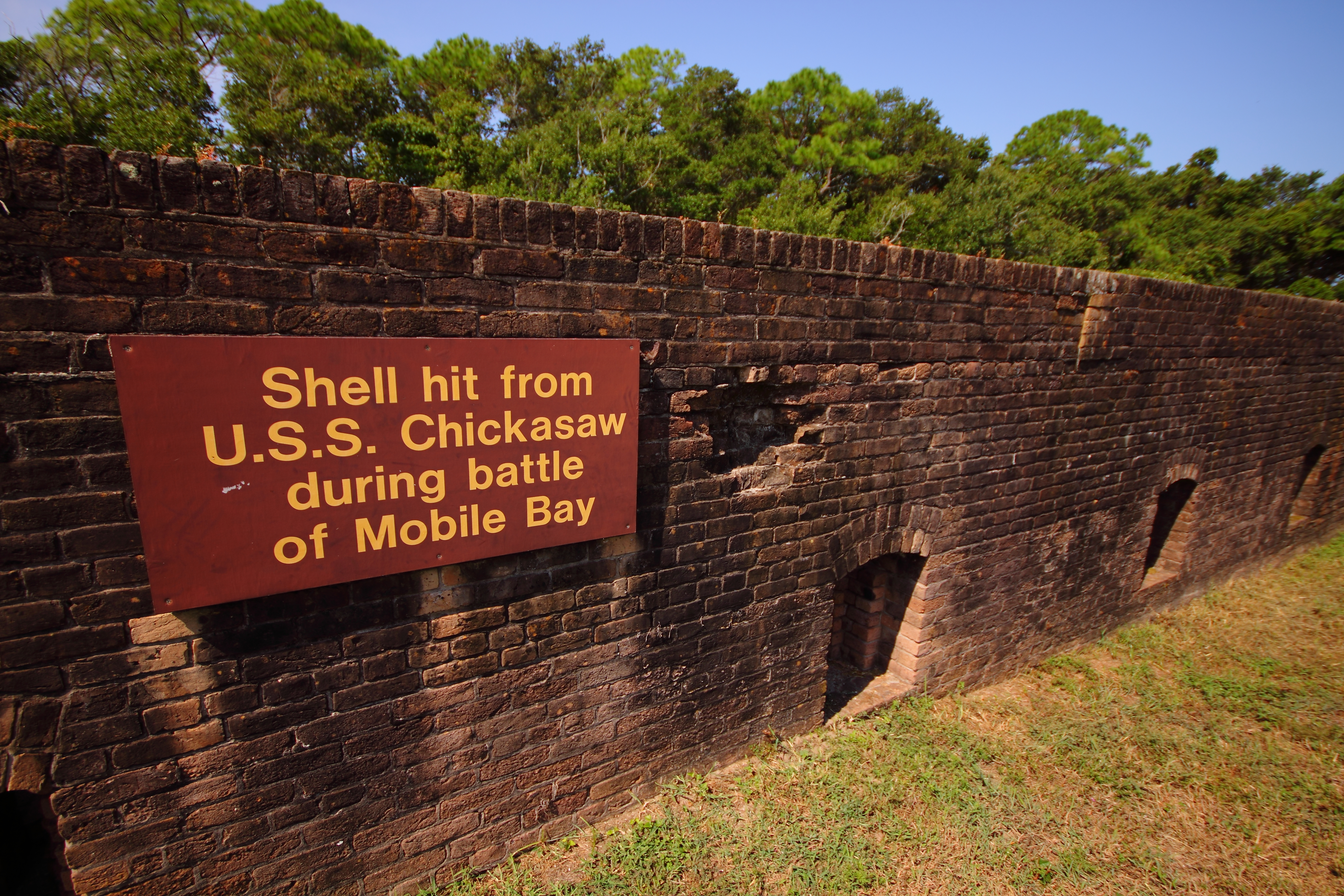 Shell hit from USS Chickasaw on a south wall of Ft. Gaines